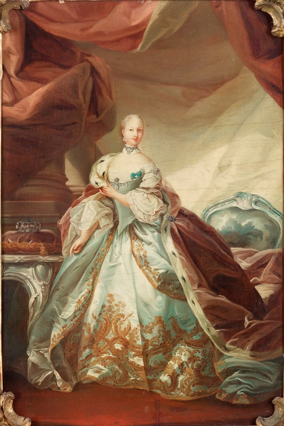 Juliane Marie af Braunschweig-Wolfenbuttel dronning af Danmark, malet af carl gustaf pilo. Juliana-Maria of Brunswick-Wolfenbuttel, queen of denmark, by Pilo